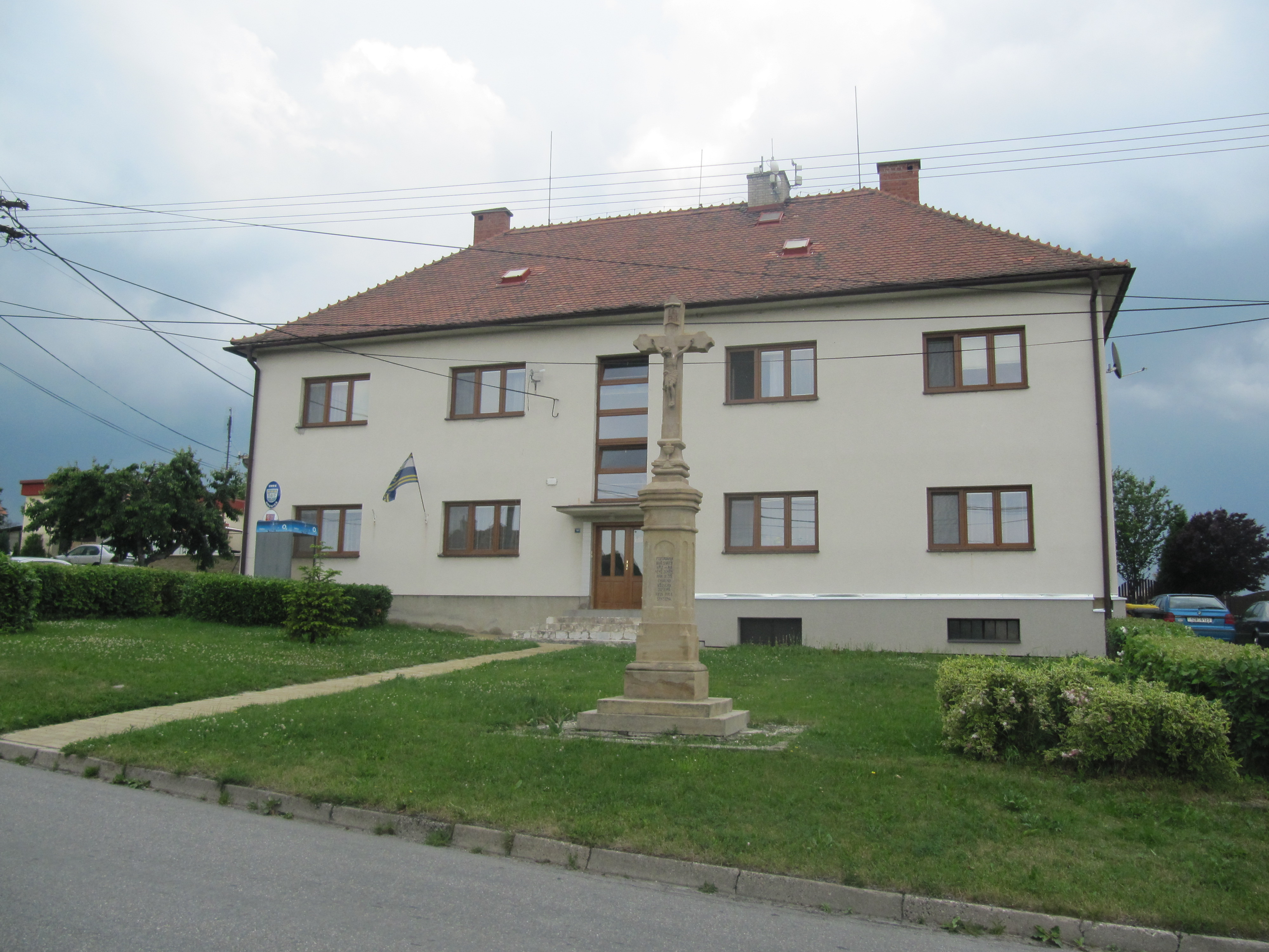 Hrobice